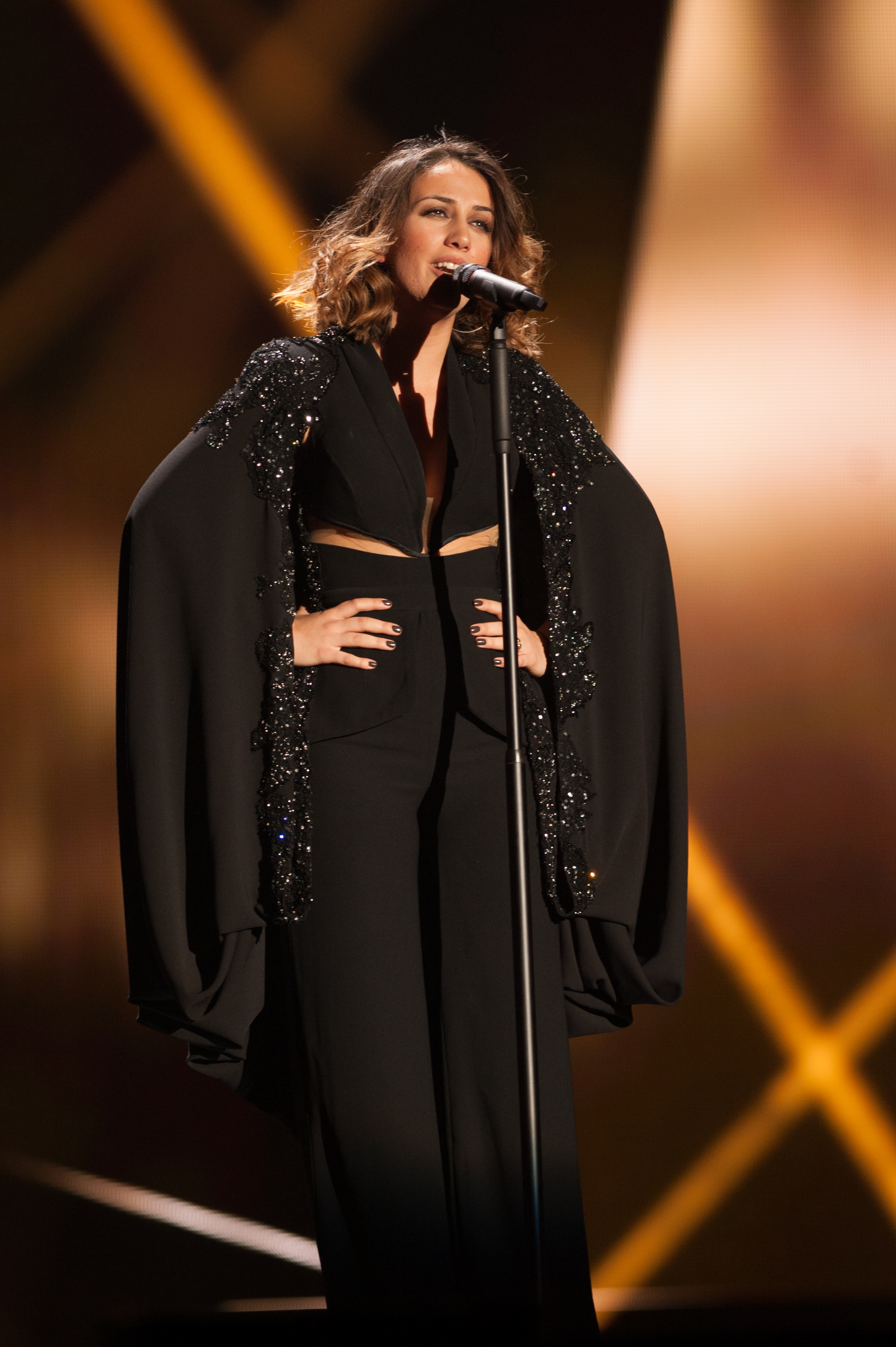 Eurovision Song Contest Vienna 2015: Elhaida Dani, Albania